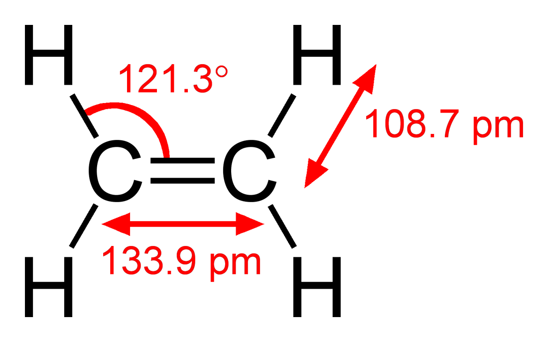 Structural formula of the ethylene (ethene) molecule, C2H4. The molecule belongs to the D2h point group. Structural information (determined by microwave spectroscopy) from CRC Handbook, 88th edition.